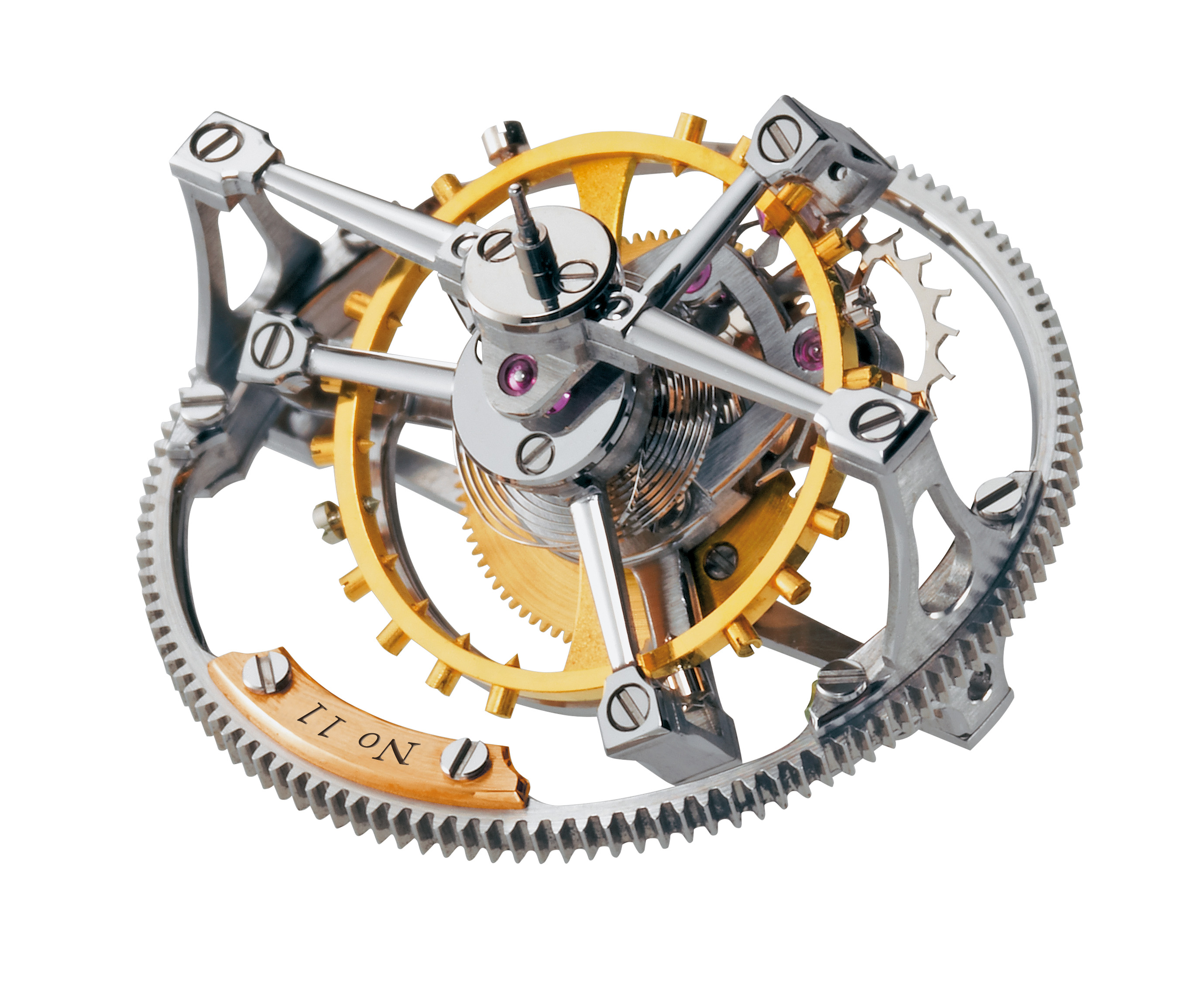 Double Tourbillon 30° is a double tourbillon, with one 60-second tourbillon cage inclined at 30° rotating inside another tourbillon cage rotating every four minutes.